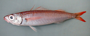 Picture of Centracanthus cirrus